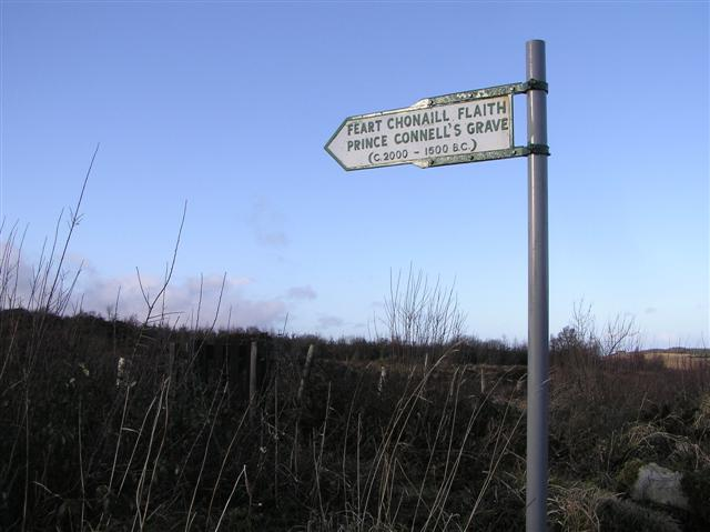 Sign for Prince Connell's Grave It is located on the R281 from Kiltyclogher to Glenfarne